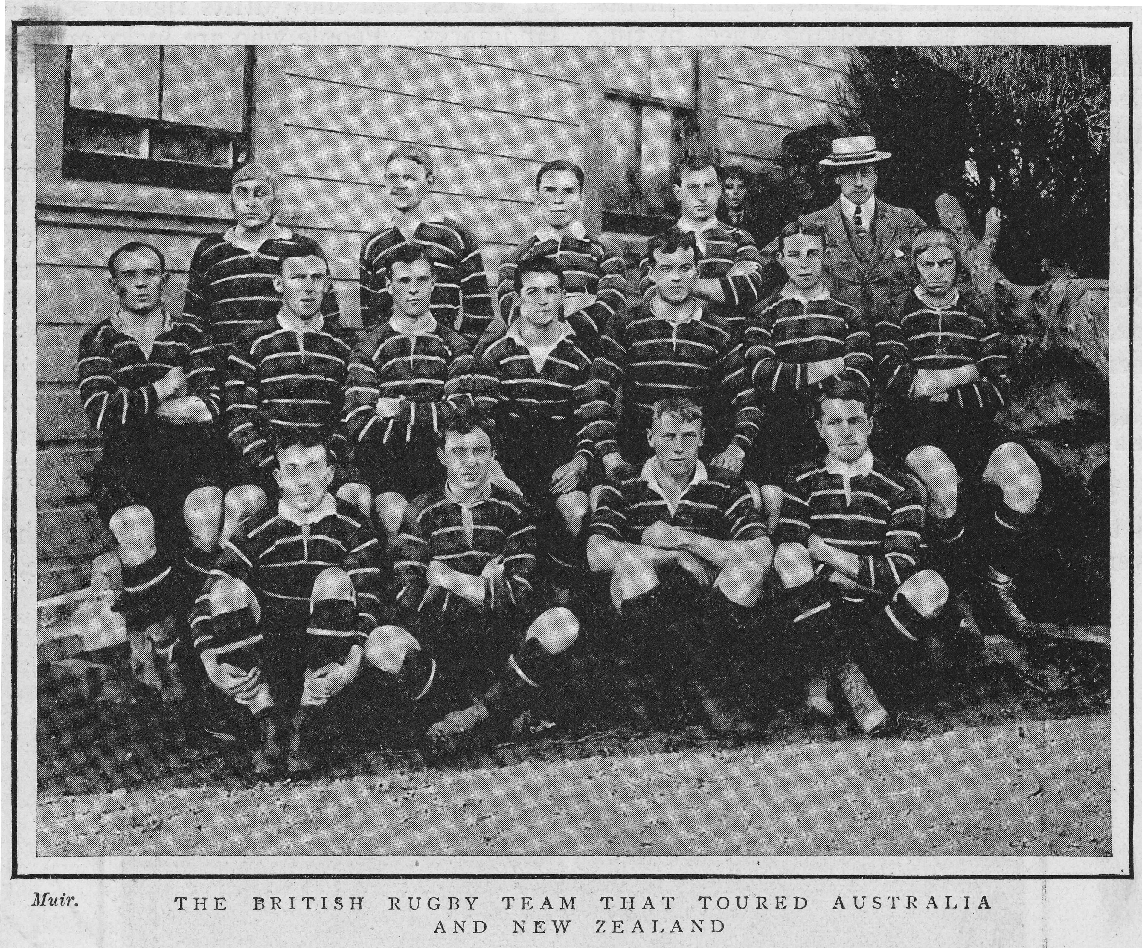 The British rugby union team (now known as the British and Irish Lions during the New Zealand-leg of their tour of Australia and New Zealand in 1904.